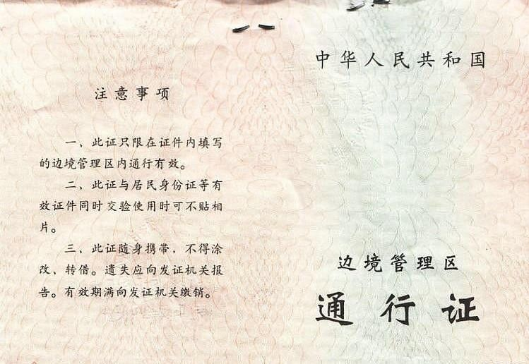 Sample of the Border Management Zone Permit of the People's Republic of China